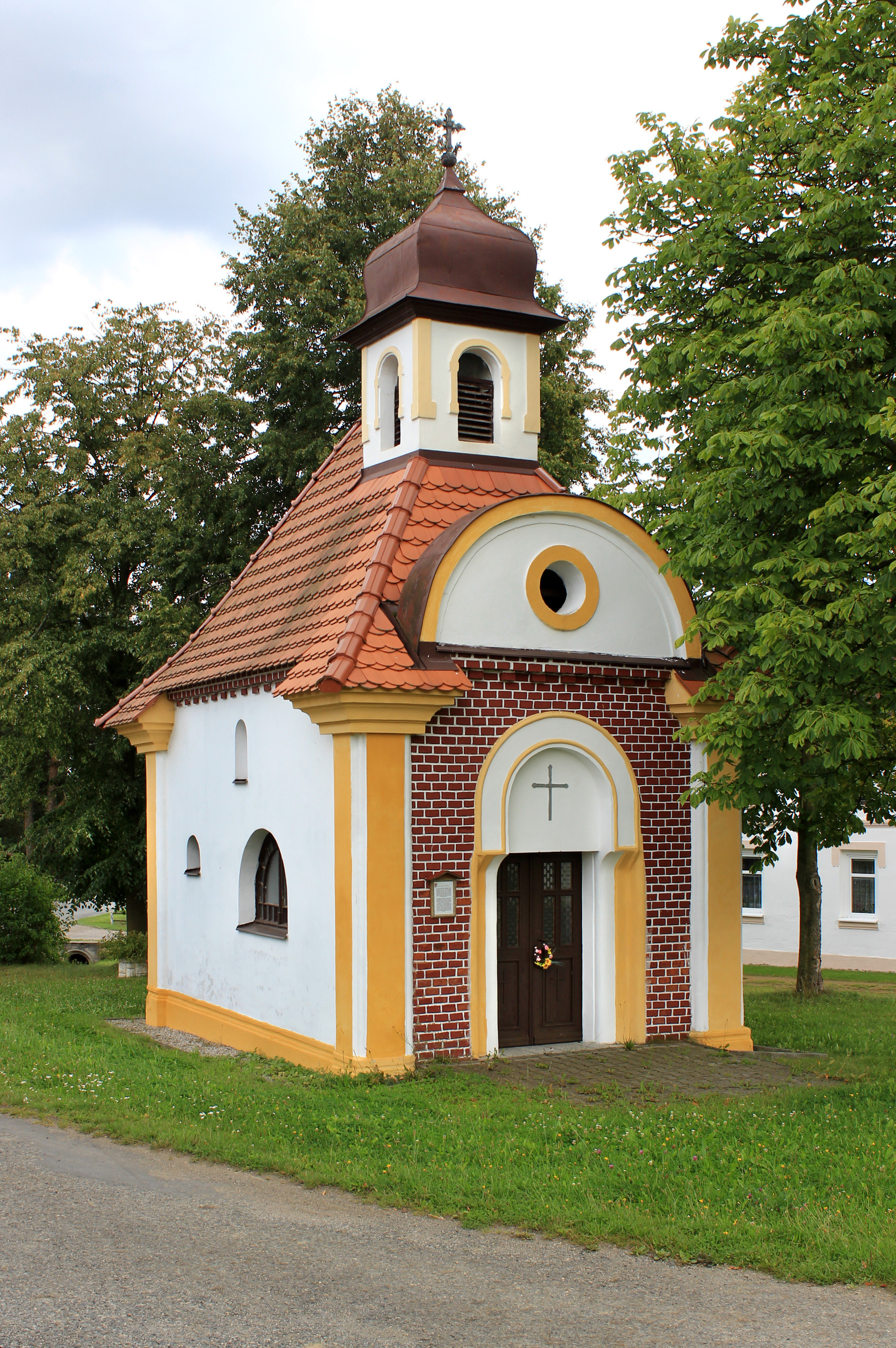 Chapel in Lisov, Czech Republic.